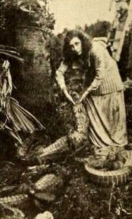 Still with Anna Luther and alligators for the American film serial The Great Gamble (1919), on page 1852 of the August 30, 1919 Motion Picture News.